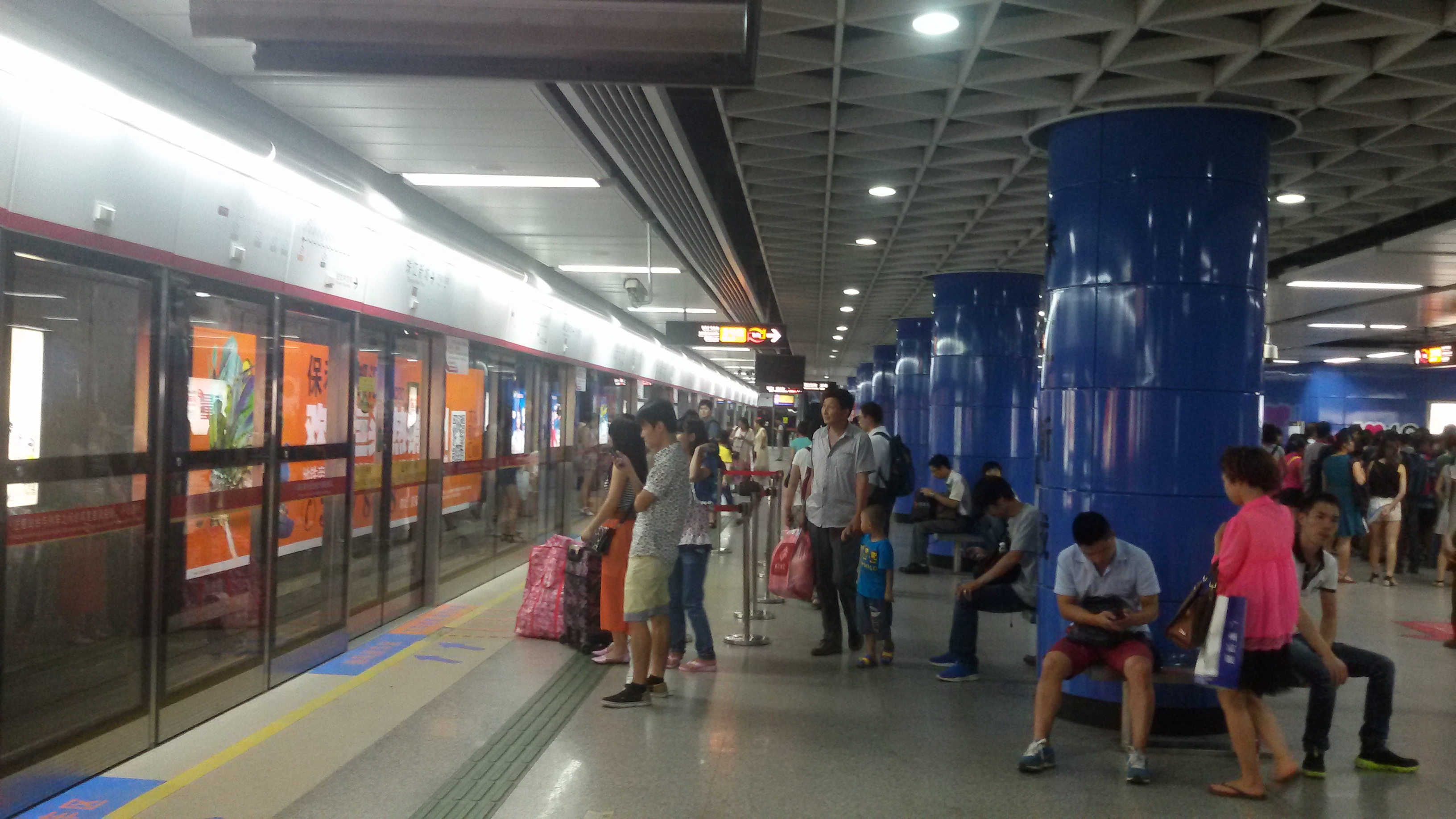 Station Platform for Zhujiang New Town Station at Line 5 in Guangzhou Metro. 粵語: 廣州地鐵5號綫嘅珠江新城站嘅站台